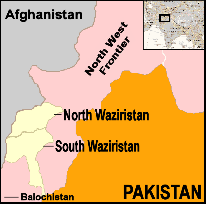 Map showing location of North and South Waziristan in northern Pakistan and bordering on Afghanistan